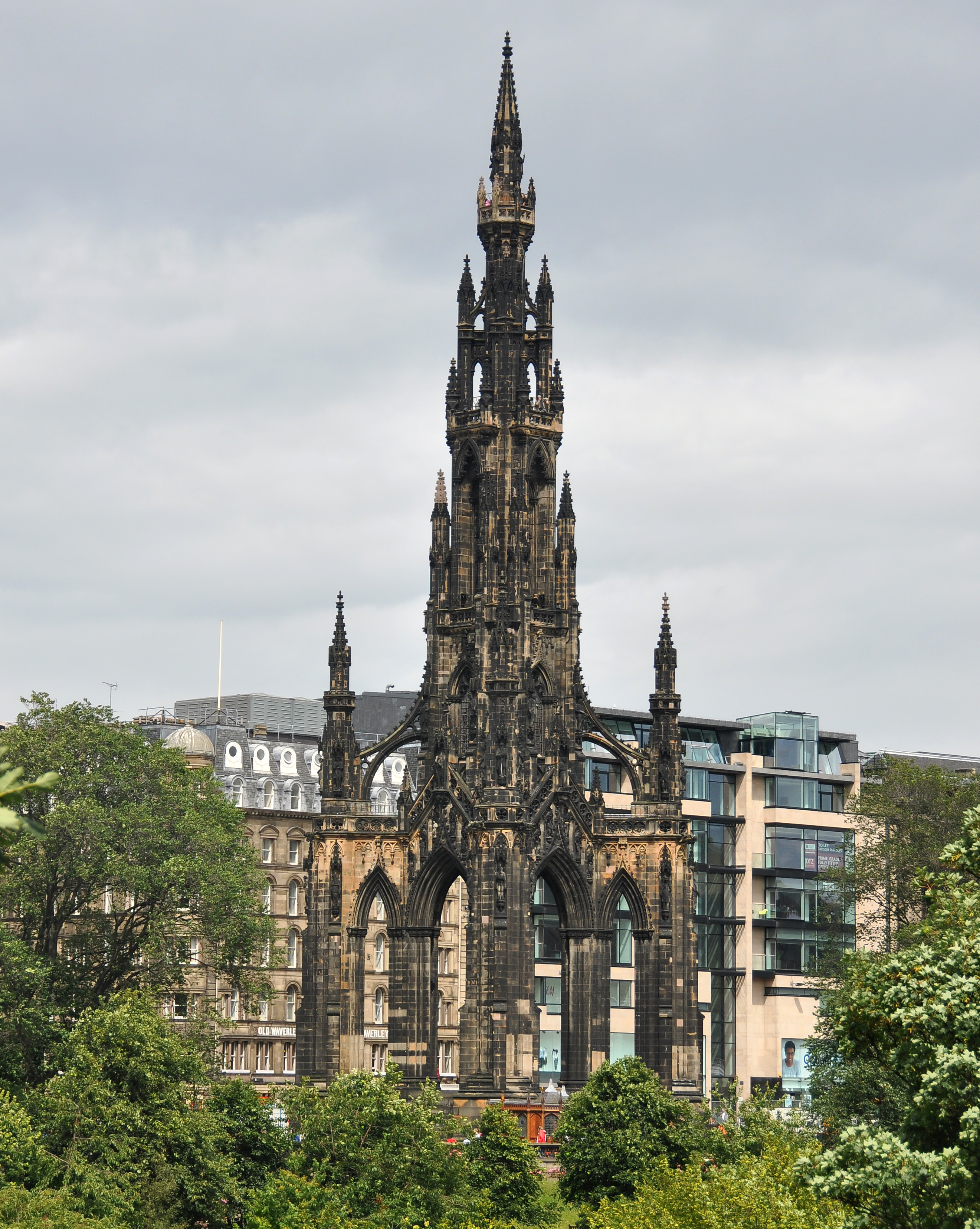 The Scott Monument in central Edinburgh